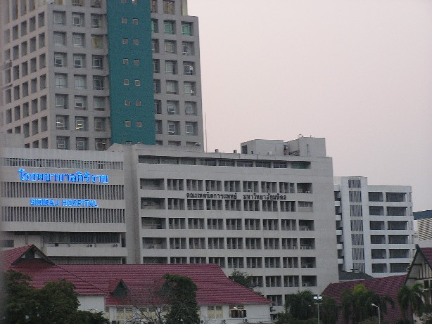 Faculty of Medical Technology, Mahidol University, Bangkok, Thailand